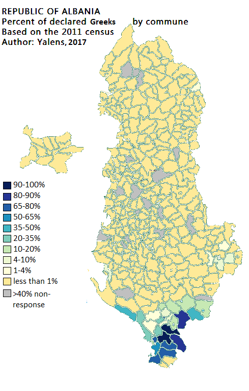 Distribution of ethnic Greeks in the 2011 Albanian Census, with categories 90-100%, 80-90%, 65-80%, 50-65%, 35-50%, 20-35%, 10-20%, 4-10%, and 0-4%. Any municipalities, such as Gjergjan, Shllak, and so on, that had less than 60% of responses for the ethnicity question are so marked in gray instead. Gathered from .